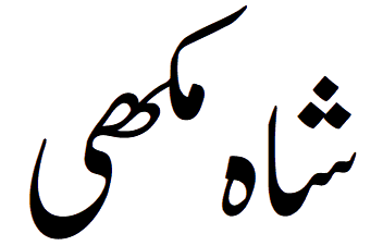 Shahmukhi written in the Nastaliq script. Shahmukhi is a form of Punjabi spoken in Punjab, Pakistan (primarily by Muslims)